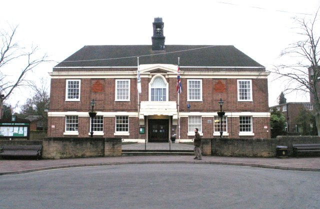 Beeston Town Hall For a Town Hall this one is very discreetly tucked away at the end of a cul-de-sac (Foster Avenue).